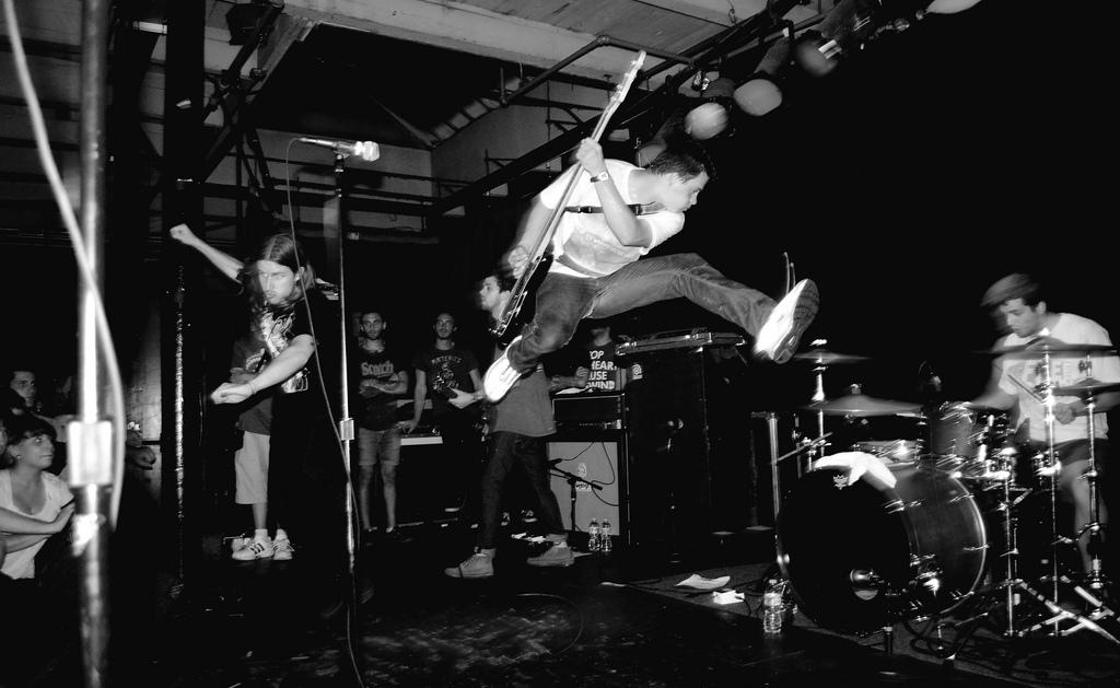 Punk band Title Fight in concert